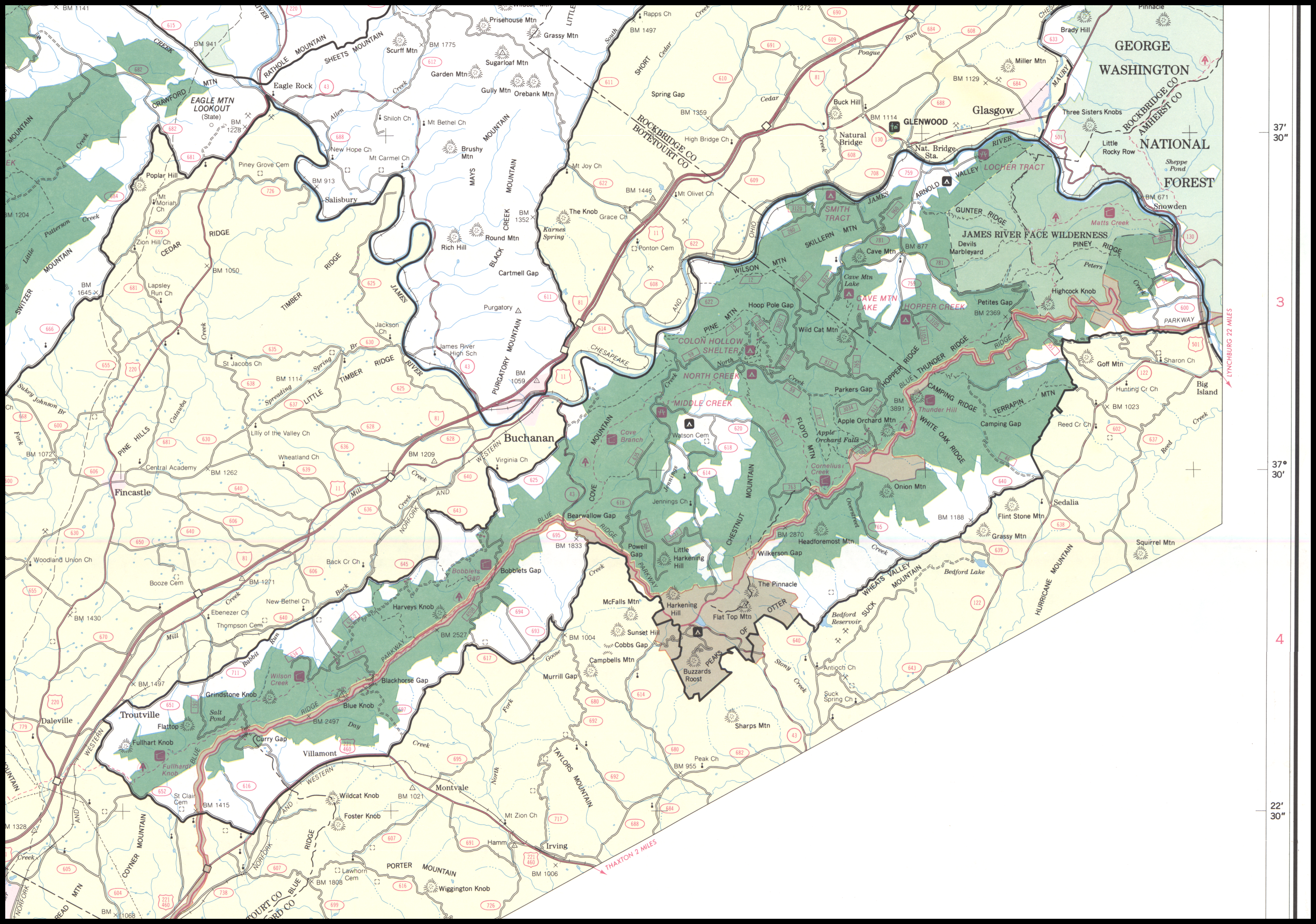 A map of the Glenwood Ranger District Cluster, a region identified by the Wilderness Society